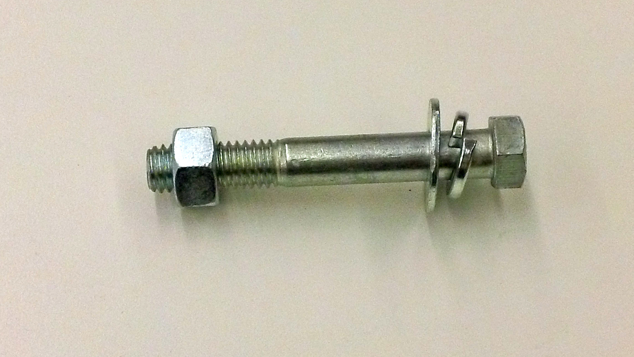 Bolt, Plain washer and Spring lock washer.